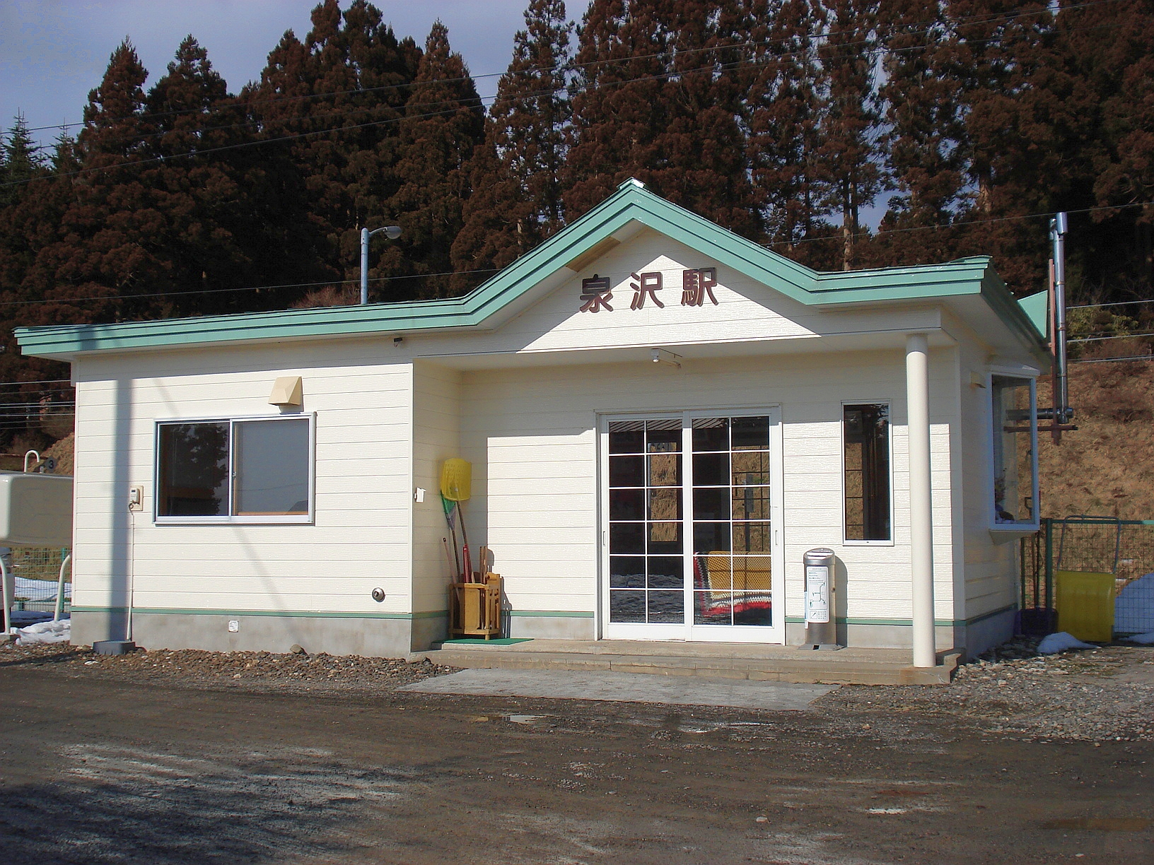 This station, Izumisawa station, is on the JR Hokkaido's Esashi Line, in Kikonai town, Hokkaido, Japan.